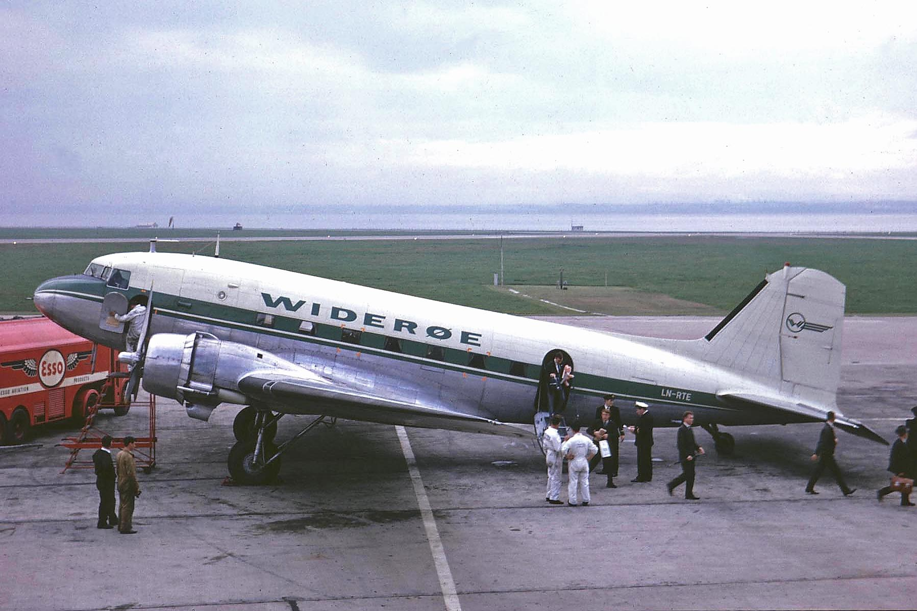 "LN-RTE Douglas C-47 Wideroe LPL 30JUL64 This photo has the dubious distinction of being the only one in my collection which has me in it. It was taken by a colleague using my camera. I was 20 and working for British Eagle at Liverpool. Clue.. I'm not the one in the white-topped uniform cap!"